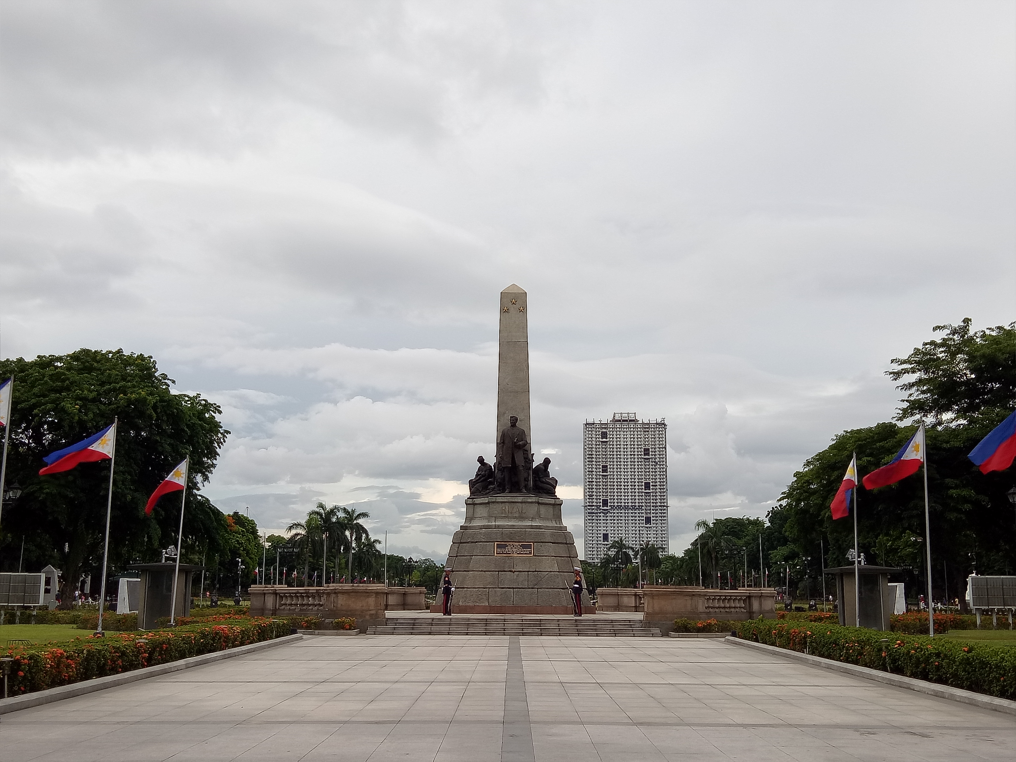 Rizal Park also known as Luneta Park or simply Luneta, is a historical urban park in the Philippines. Located along Roxas Boulevard, Manila, adjacent to the old walled city of Intramuros, it is one of the largest urban parks in Asia. It has been a favorite leisure spot, and is frequented on Sundays and national holidays. Rizal Park is one of the major tourist attractions of Manila. Depicted is the Rizal Monument with the Torre de Manila in the background. Uploaded as entry to Wiki Loves Earth (2018). Coordinates: 14°34′57″N 120°58′42″E